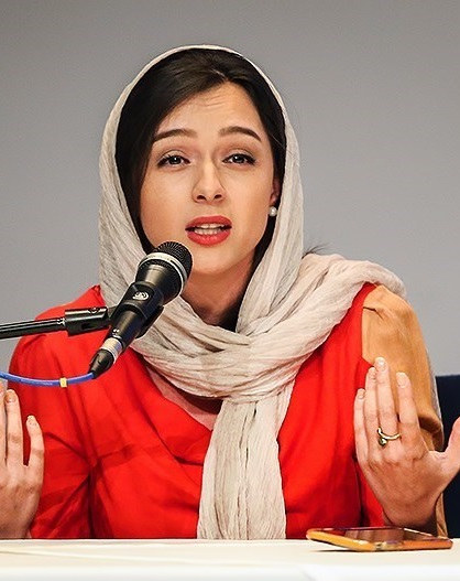 Taraneh Alidoosti in The Salesman's press conference in Tehran